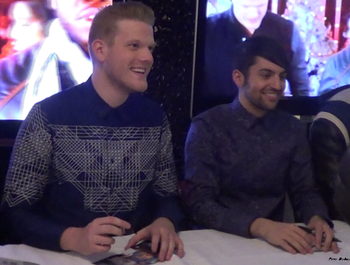 Mitch Grassi and Scott Hoying of Superfruit at a Pentatonix signing at the NBC Store in New York in November 2014 promoting the 2014 album 'That's Christmas to Me'. PHOTO BY PETER DZUBAY